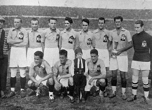 The Yugoslavia national football team during the first FIFA World Cup held in Uruguay. Back row, l. to r.: Dragoslav Mihajlović, Ljubiša Stefanović, Momčilo Đokić, Đorđe Vujadinović, Milorad Arsenijević, Branislav Sekulić, Milutin Ivković, Milovan Jakšić. Front row, l. to r.: Aleksandar Tirnanić, Blagoje Marjanović, Ivica Bek.